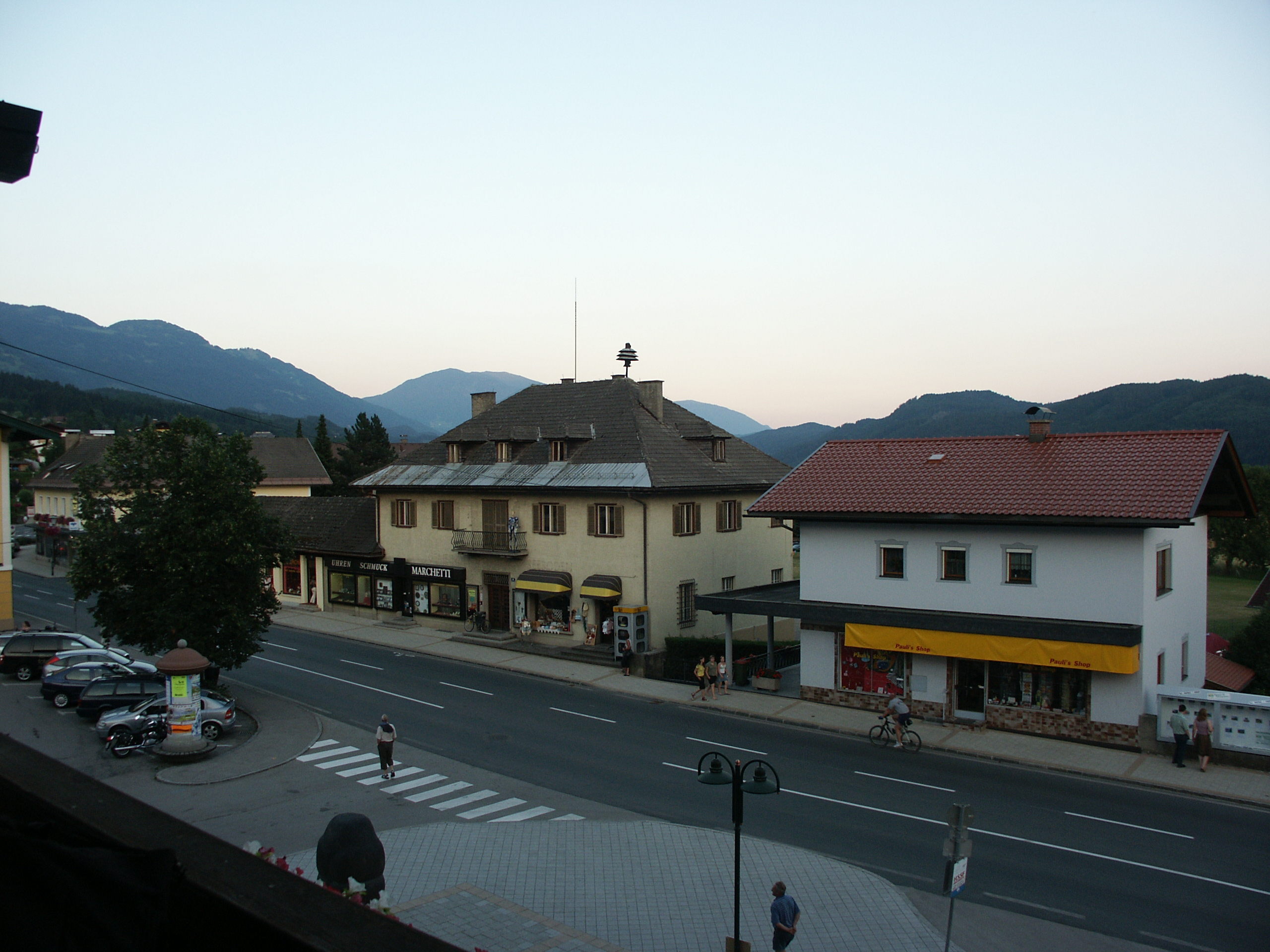 A view of the Hauptstraße road in Seeboden, taken from the top floor of the Kulturhaus. Taken by me during the World Bodypainting Festival 2006 (